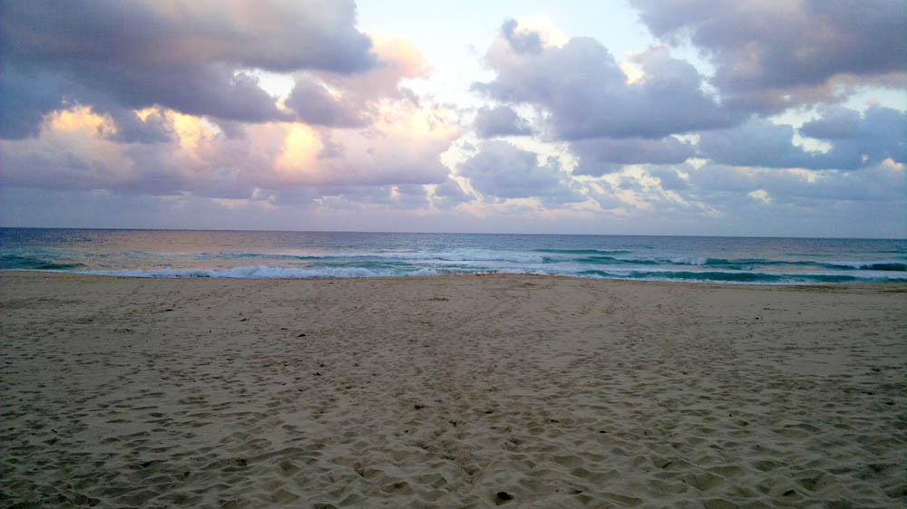 Coast of Kwa-Zulu Natal